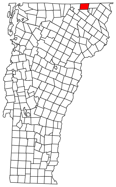 Description: Map of Vermont towns with Holland highlighted Source: Map created by Jared C. Benedict on 26 March 2004. Copyright: © Jared C. Benedict.